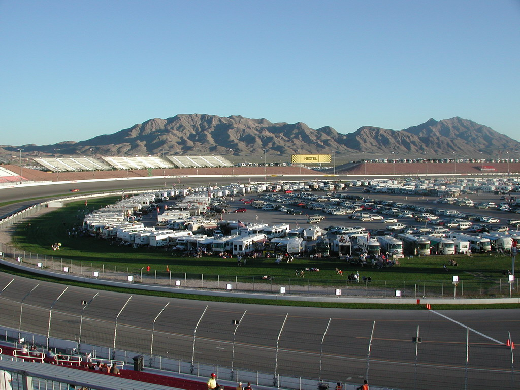 Nascar Las Vegas, Qualifying Day - As the sun moved on, the backdrop of mountains behind the track really stood out (this picture doesn't do it justics)nascarvegas05